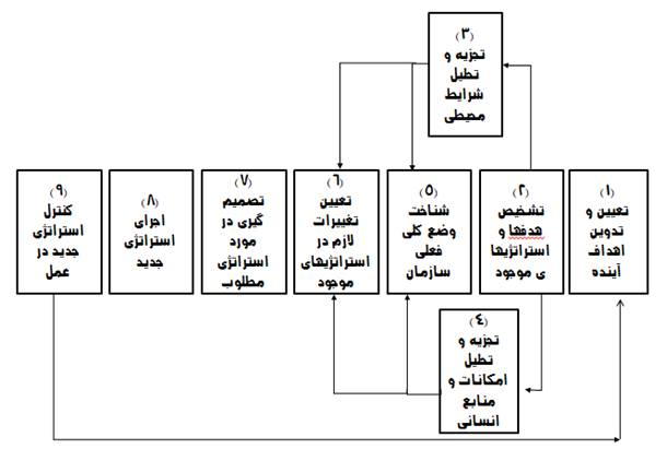 strategic planning (alvani)